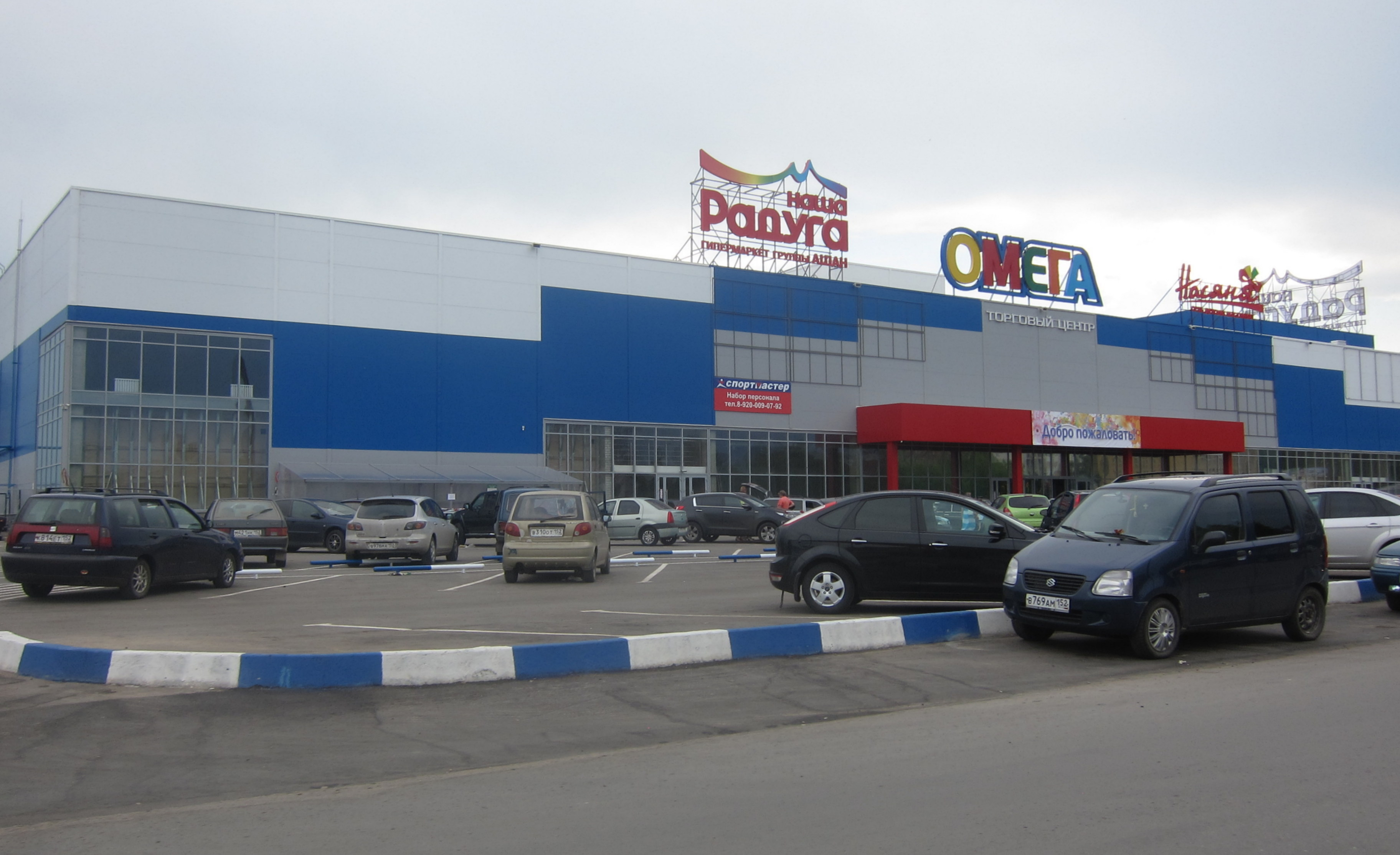 Omega